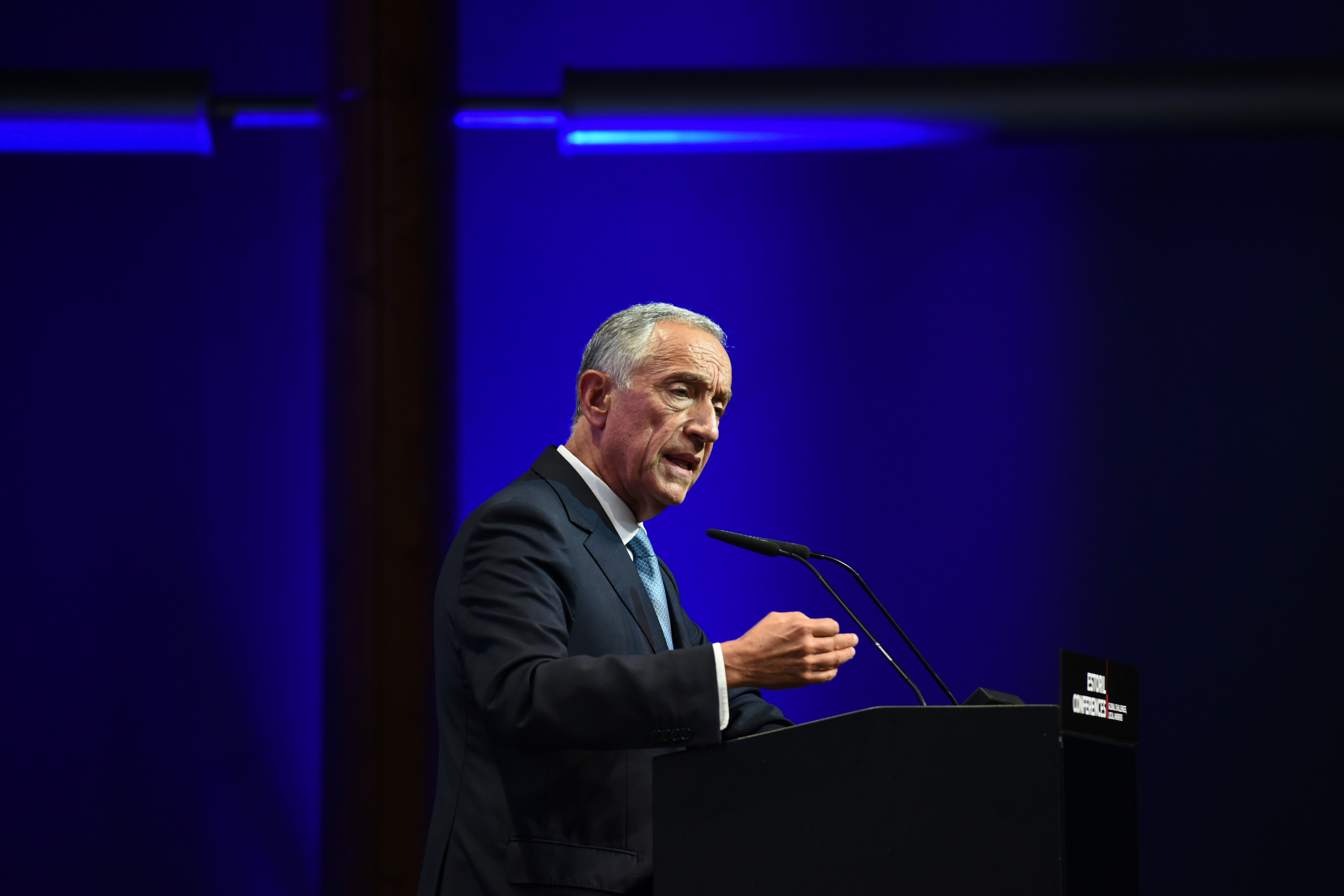 Horasis Global Meeting 2017, Cascais, Portugal, 27-30 May